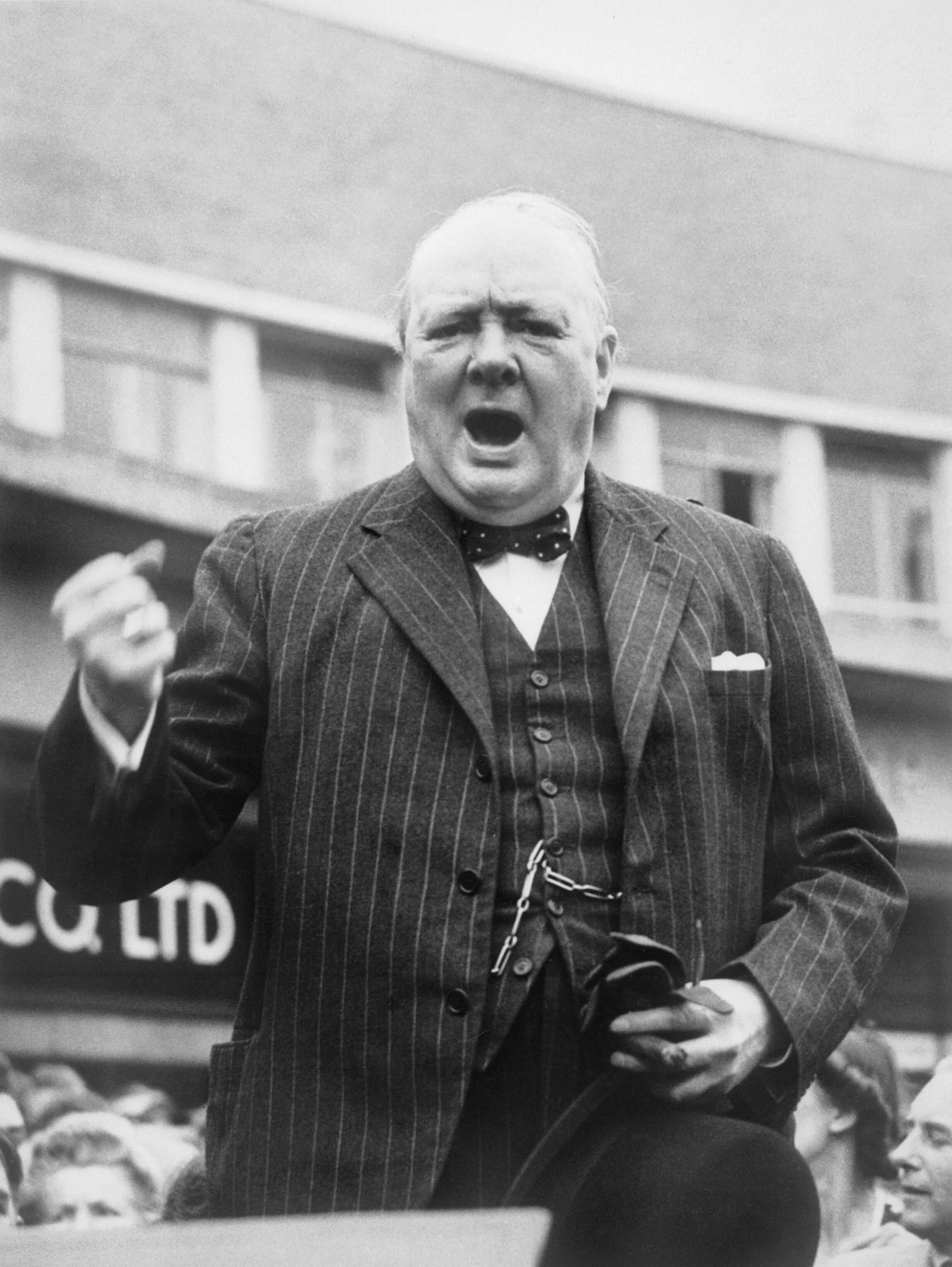 Winston Churchill during the General Election Campaign in 1945 The Prime Minister Winston Churchill makes a speech in Uxbridge, Middlesex, during the general election campaign on 27 June 1945.